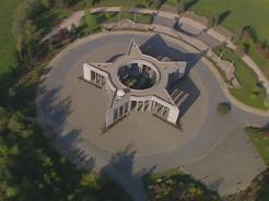 Mémorial du Mardasson